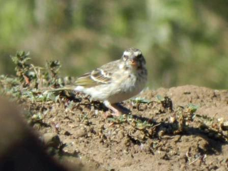 Reichenow's Seedeater Crithagra reichenowi, photographed near Gilgil, Kenya.